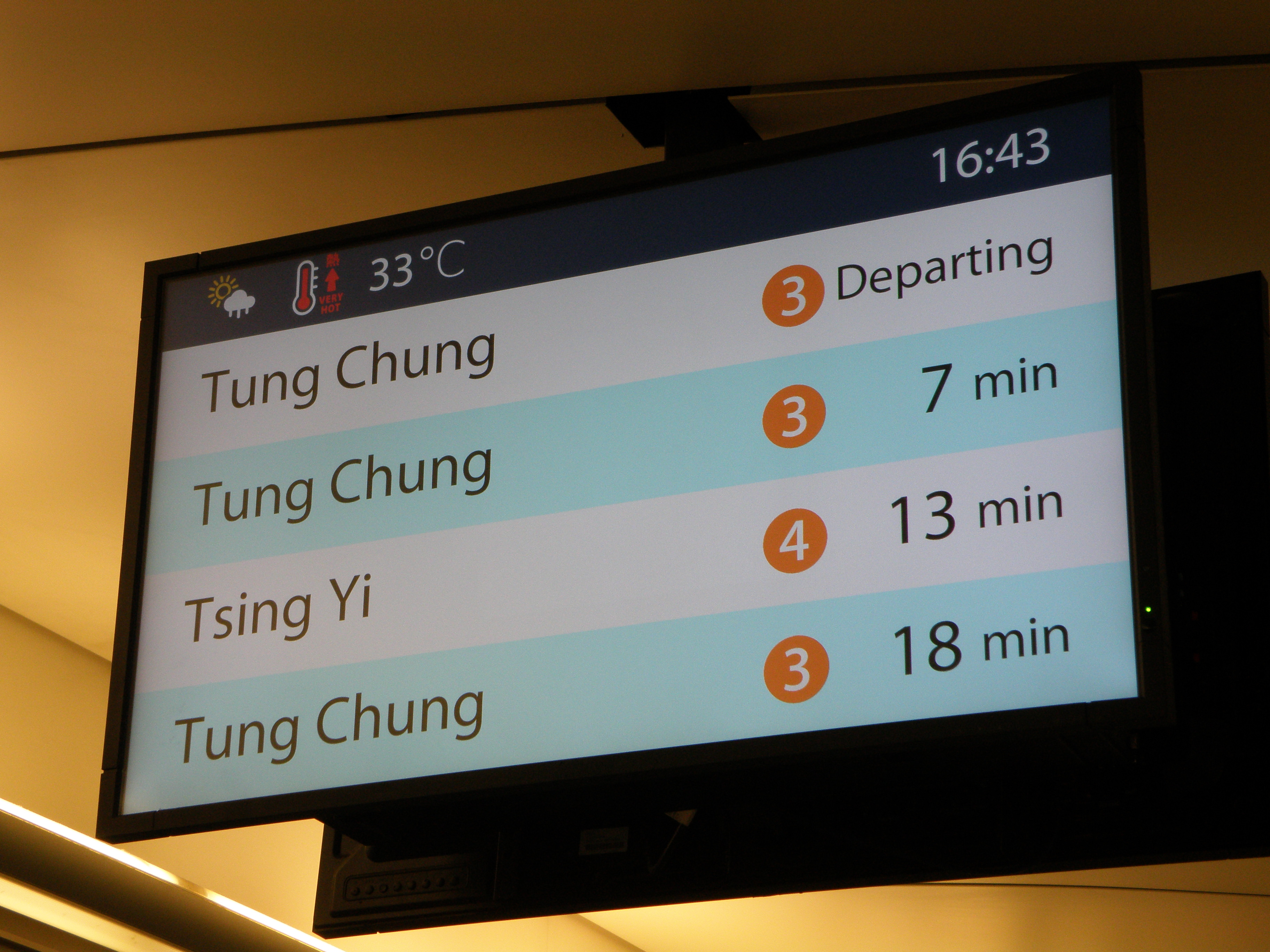 Trains and weather information display on Hong Kong MTR platforms.